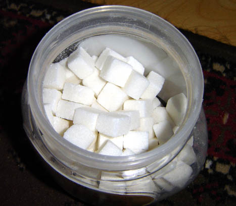 Cuboid sugar picture, taken by user Carioca